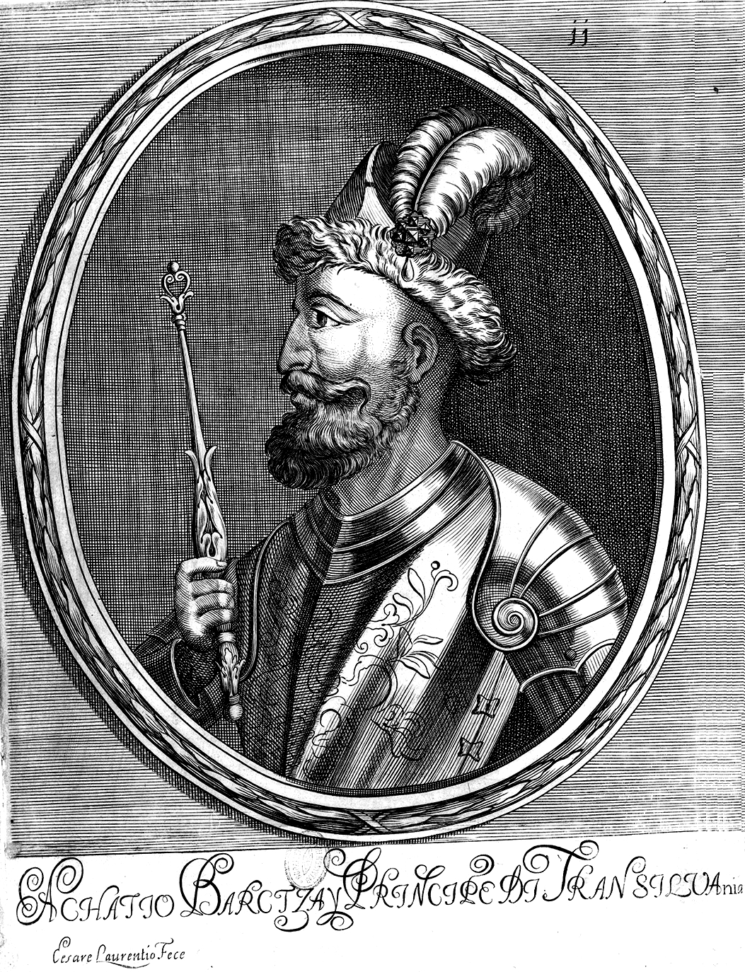 Ákos Barcsay, Prince of Transilvania